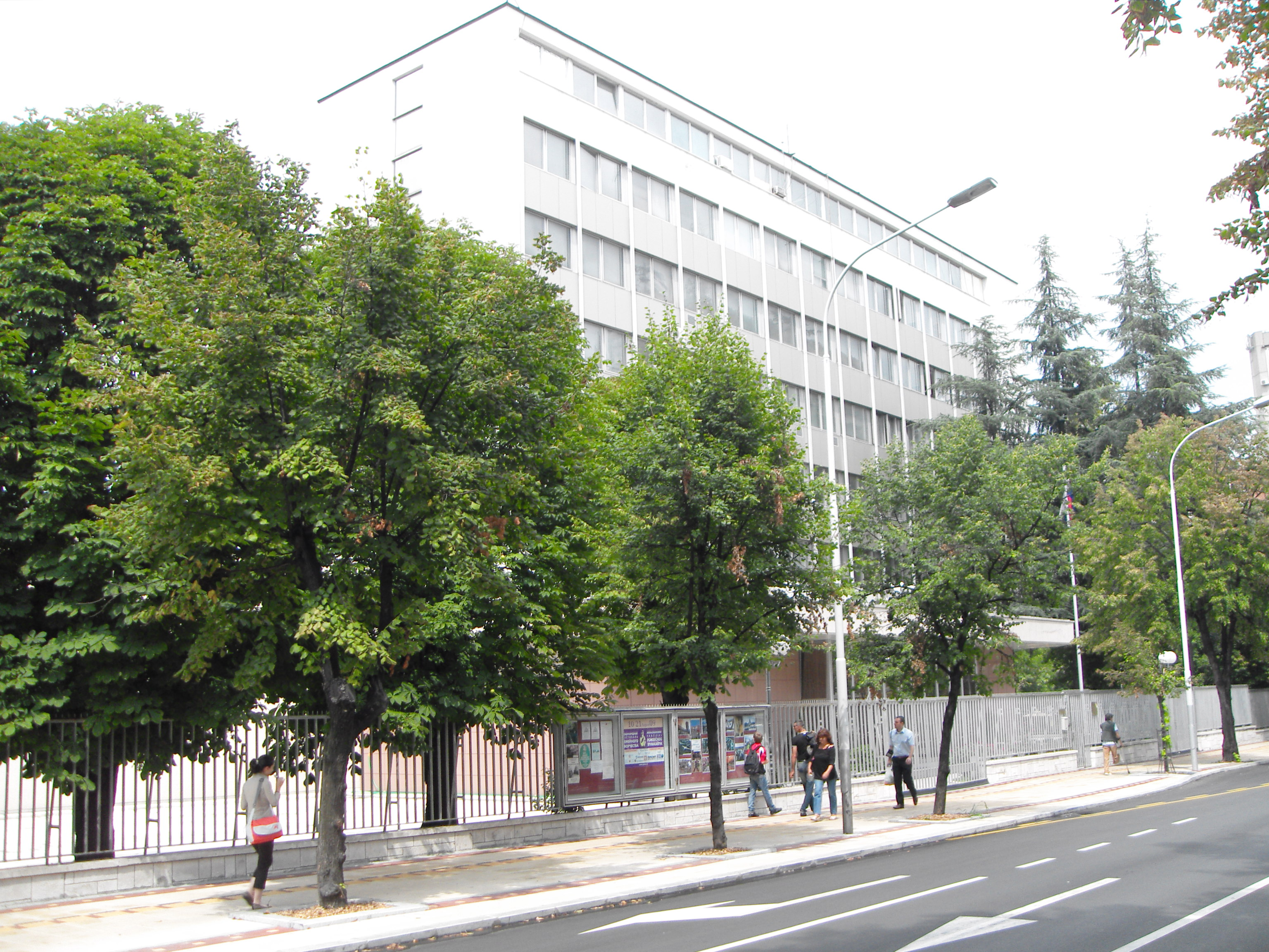 Russian Federation embassy in Belgrade